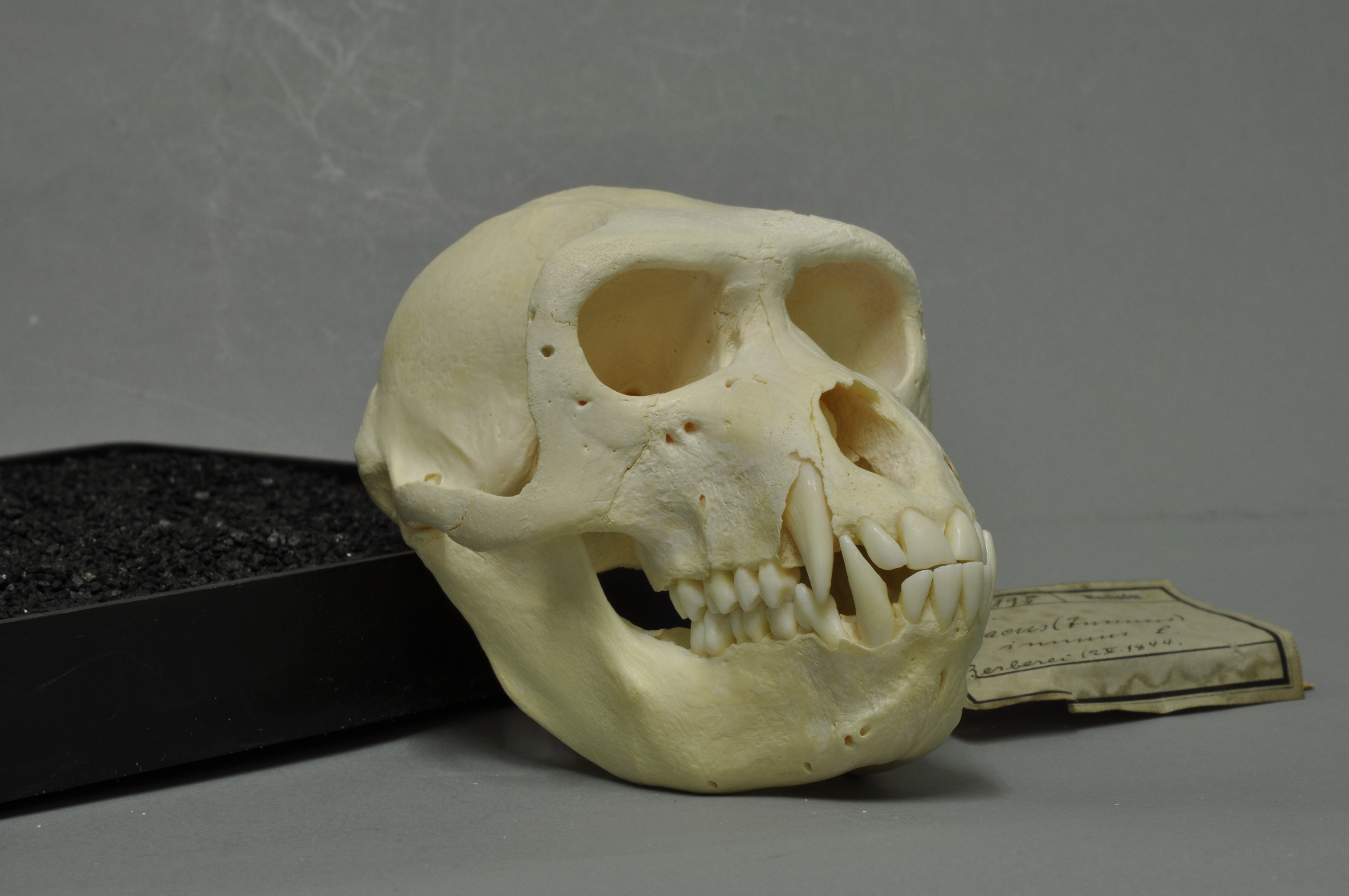 Barbary macaque Macaca sylvanus , skull, Coll. Museum Wiesbaden